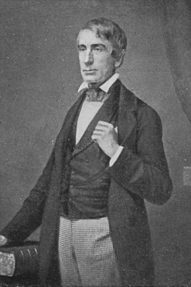 Portrait of Jacob Little, famed Wall Street investor in the 1830s and 40s.